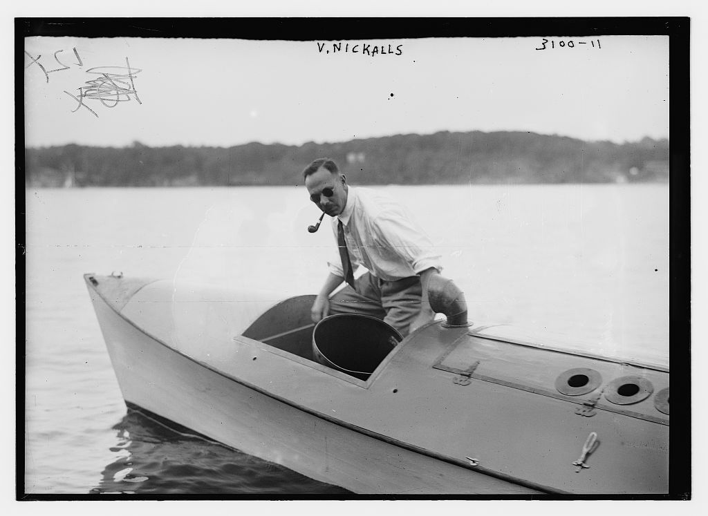 Vivian Nickalls on June 11, 1914 on the Hudson River at Poughkeepsie Bain News Service,, publisher. V. Nickalls [between ca. 1910 and ca. 1915] 1 negative : glass ; 5 x 7 in. or smaller. Notes: Title from unverified data provided by the Bain News Service on the negatives or caption cards. Forms part of: George Grantham Bain Collection (Library of Congress). Format: Glass negatives. Repository: Library of Congress, Prints and Photographs Division, Washington, D.C. 20540 USA, General information about the Bain Collection is available at Persistent URL: Call Number: LC-B2- 3100-11